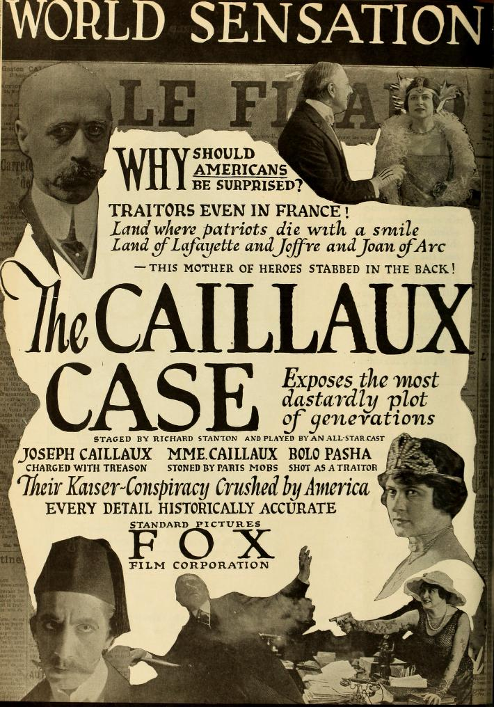 Advertisement in The Moving Picture World for the American drama film The Caillaux Case (1918).